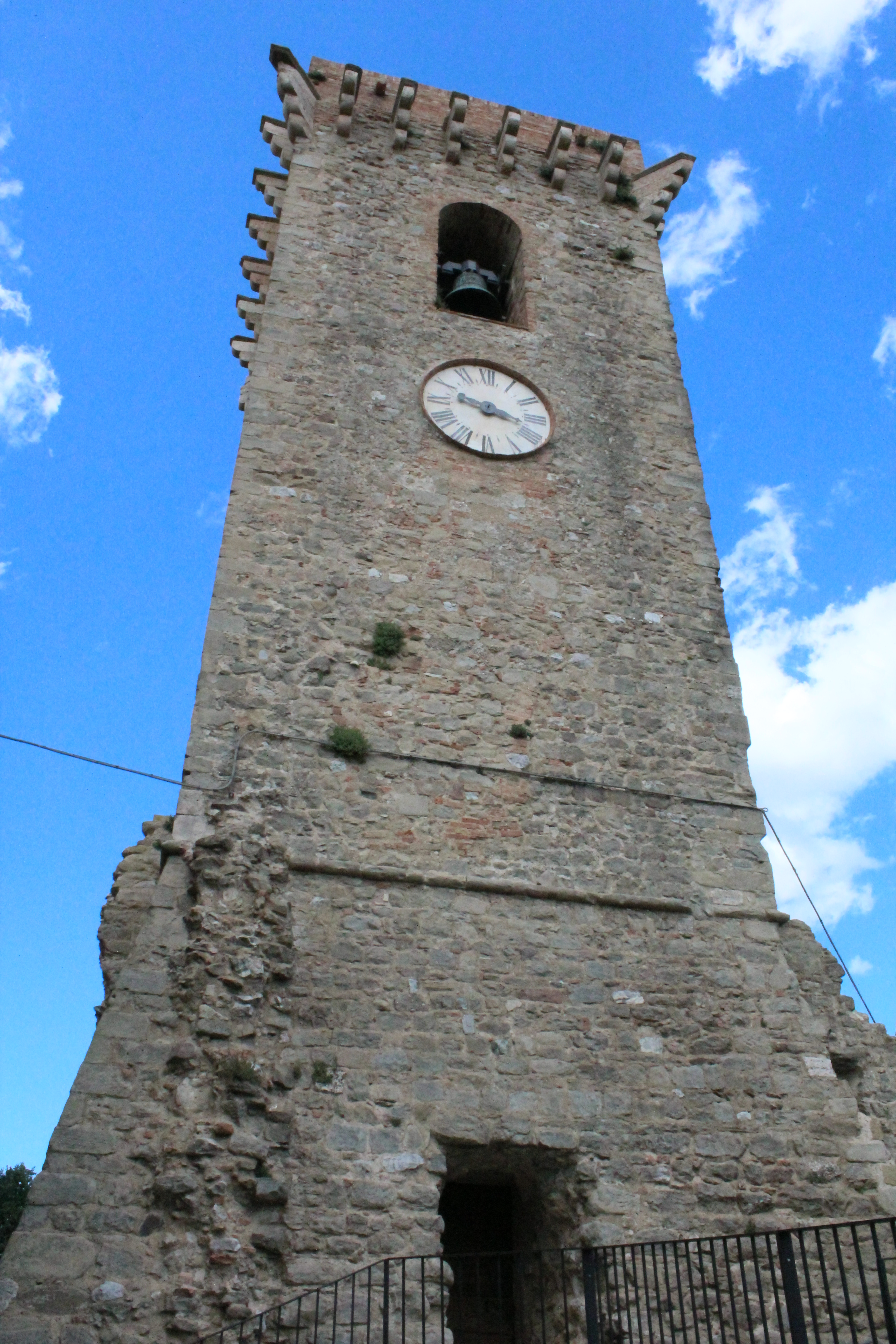 Clock Tower (Torre dell’Orologio) in Celle sul Rigo, hamlet of San Casciano dei Bagni, Province of Siena, Tuscany, Italy